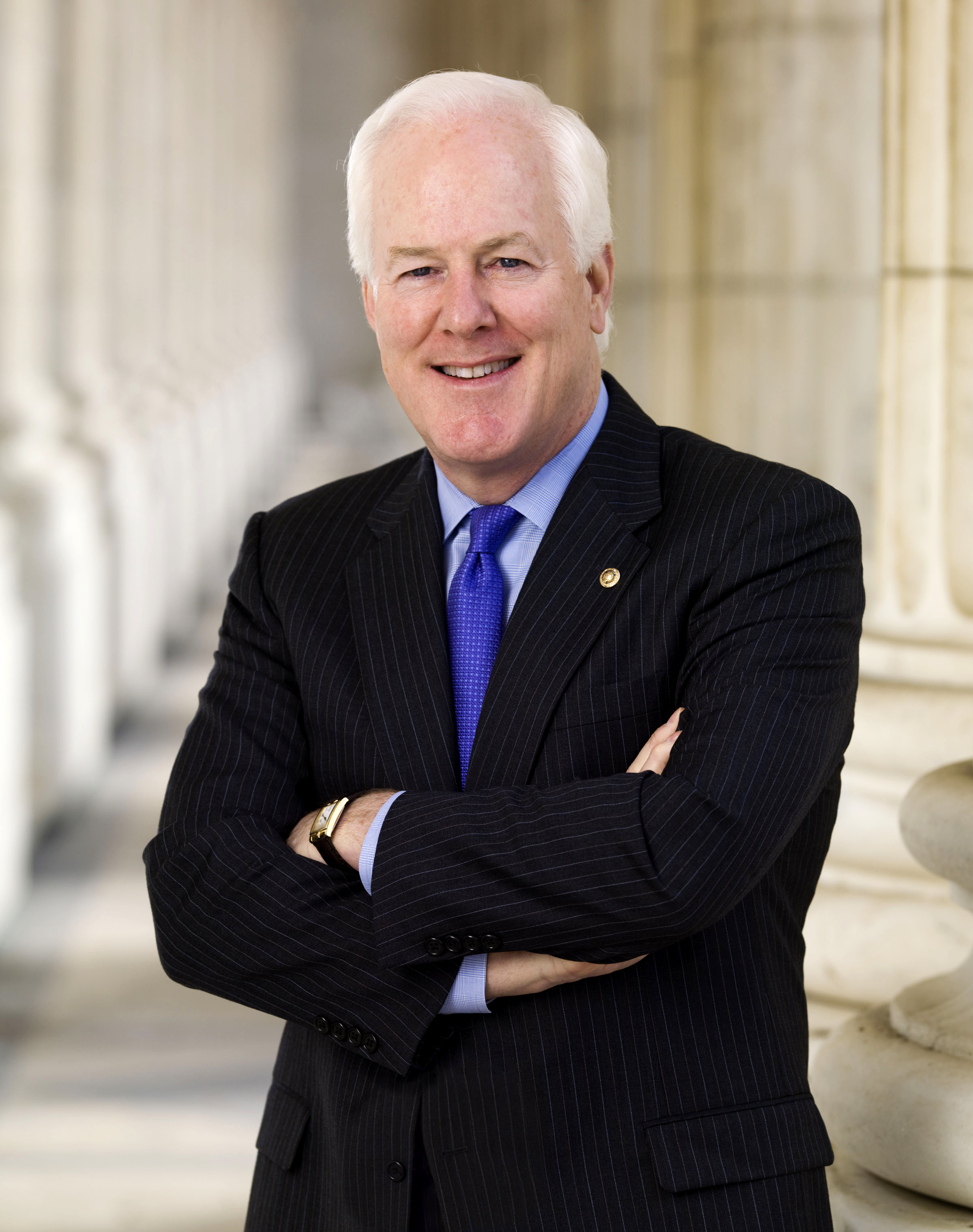 John Cornyn, member of the United States Senate.